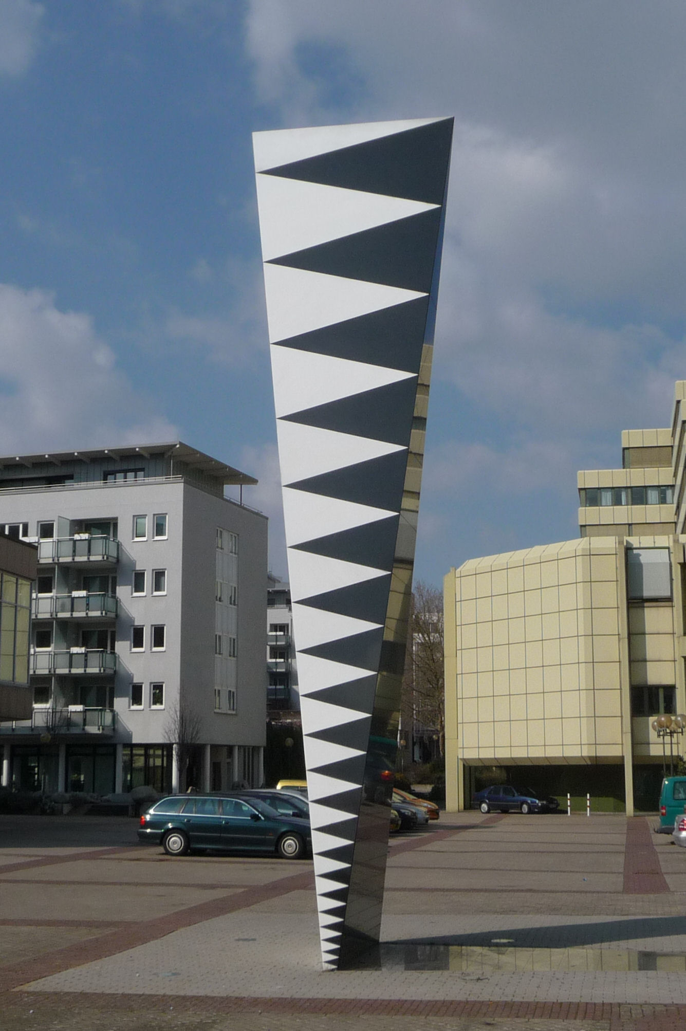 Art in Ludwigshafen, Germany